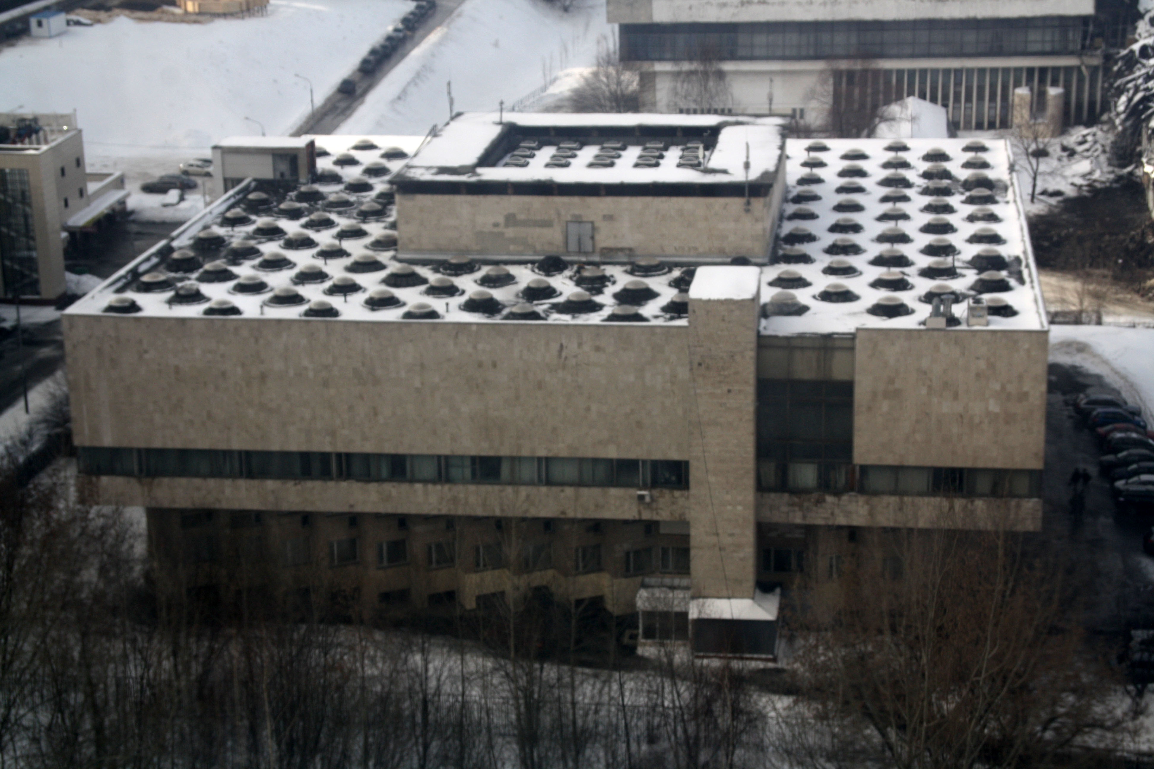 ЦНМБ вид сверху